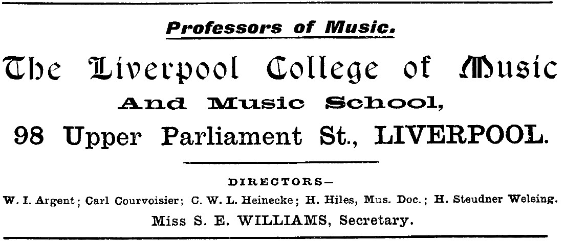 An ad for Liverpool College of Music, included in the 1900-01 edition of Macdonald's Scottish directory and gazetteer.